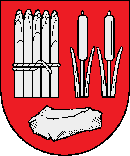 Coat of arms of the municipality Klein Nordende in Schleswig-Holstein, Germany.